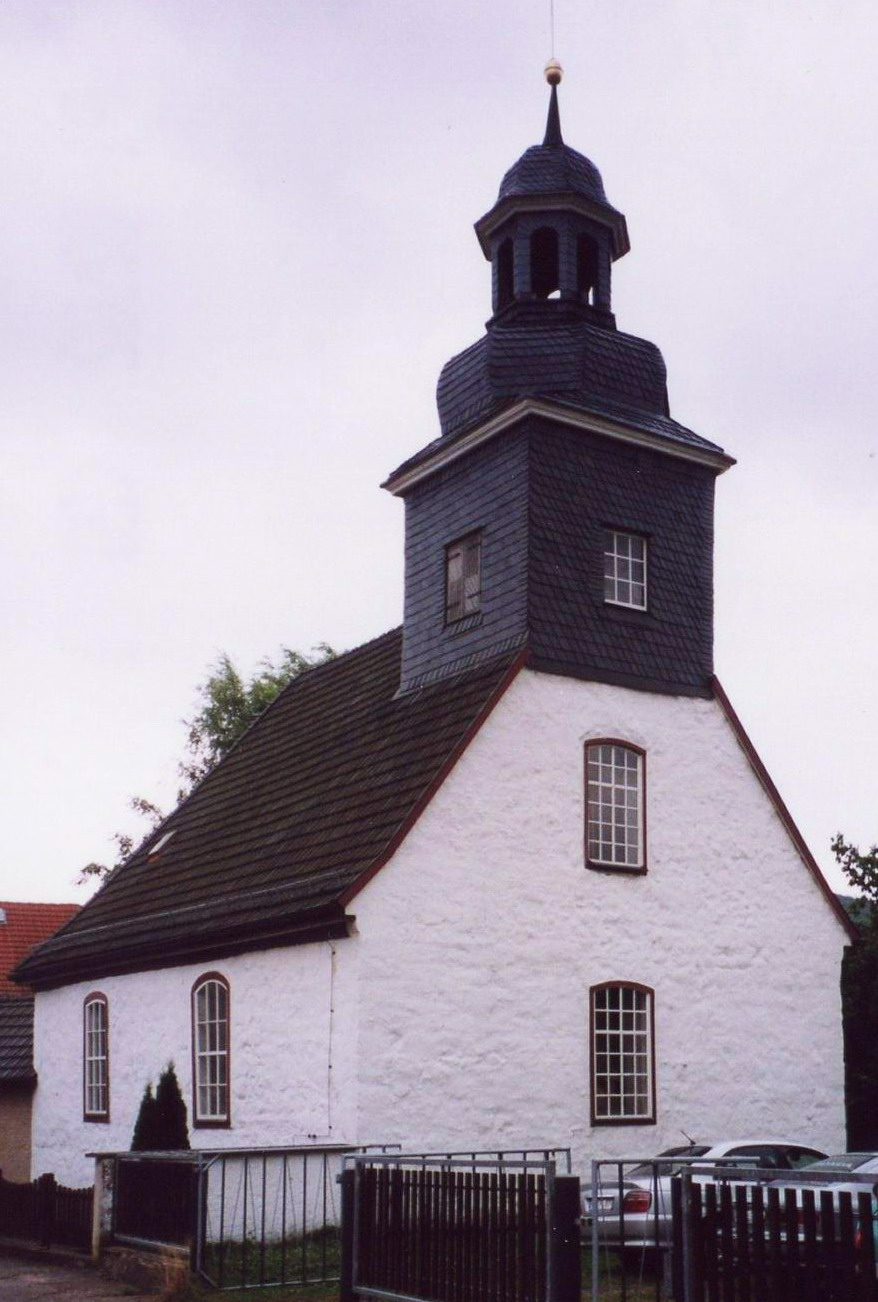 Church in Aschenhausen, Germany